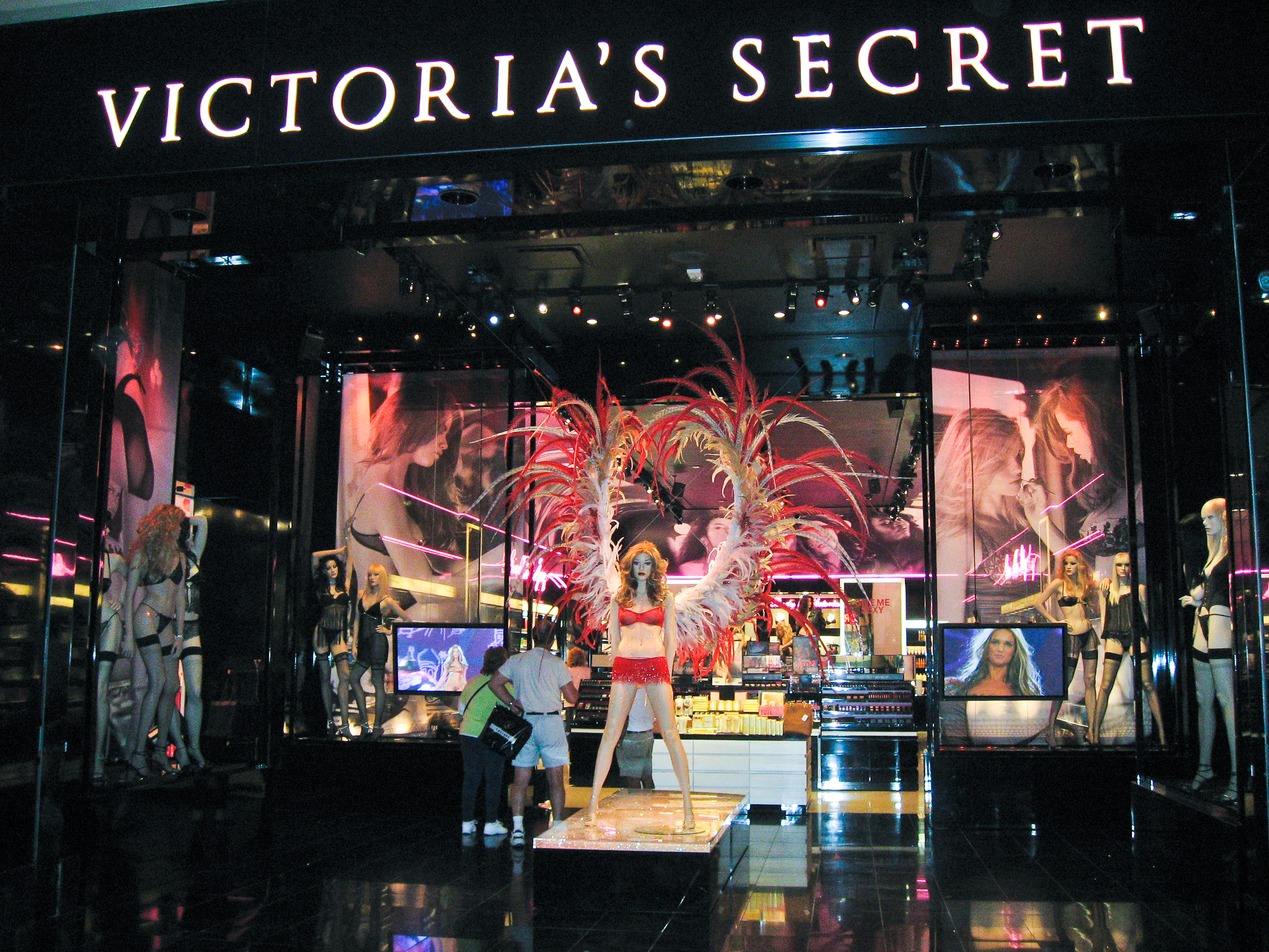 The Victoria's Secret Las Vegas store in Paradise, Nevada in 2006.